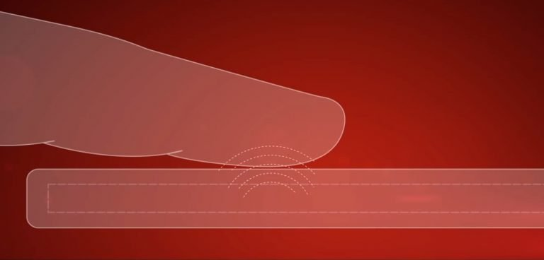 Ultrasonic-fingerprint-scanner